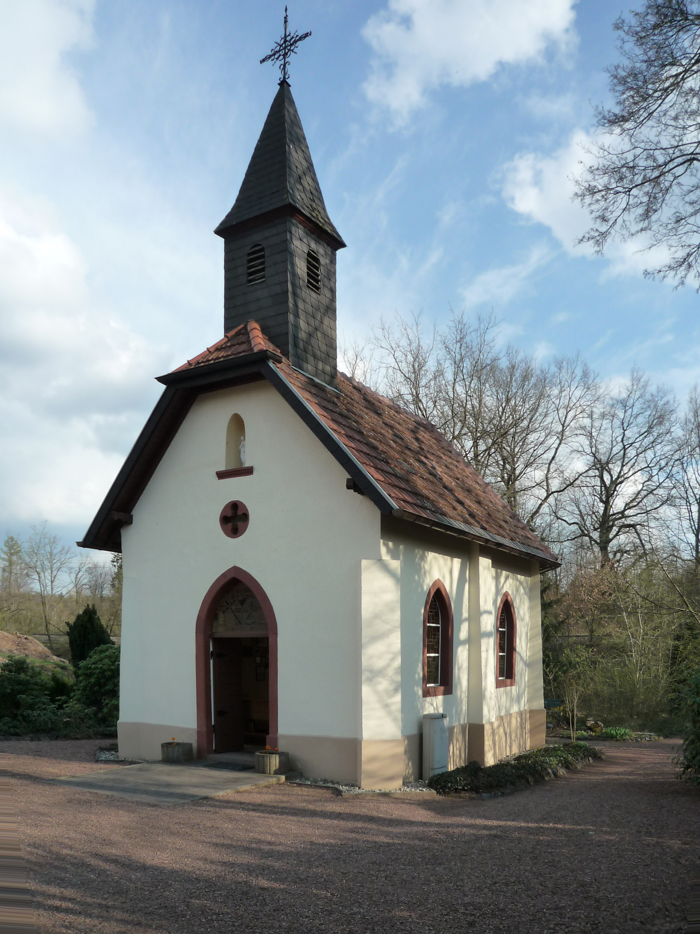 Chapel at Geistkircherhof (Saarland, Germany)